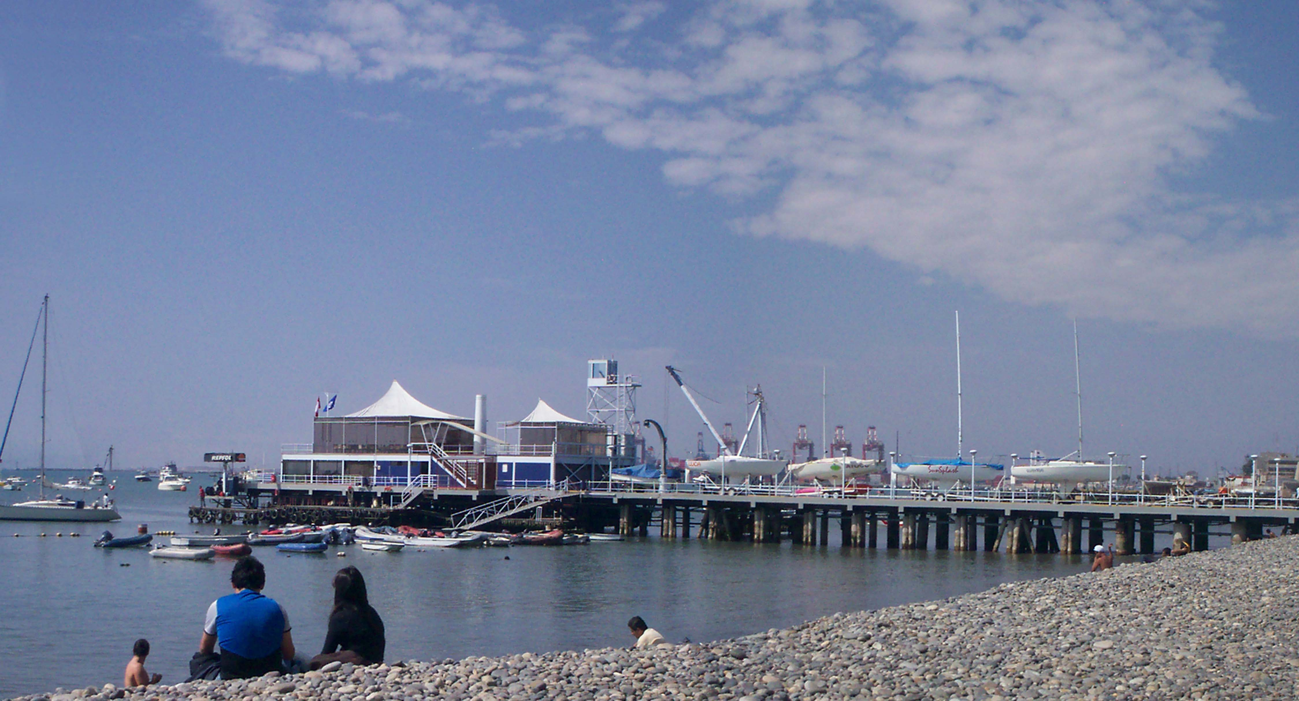 Club Regatas sede La Punta